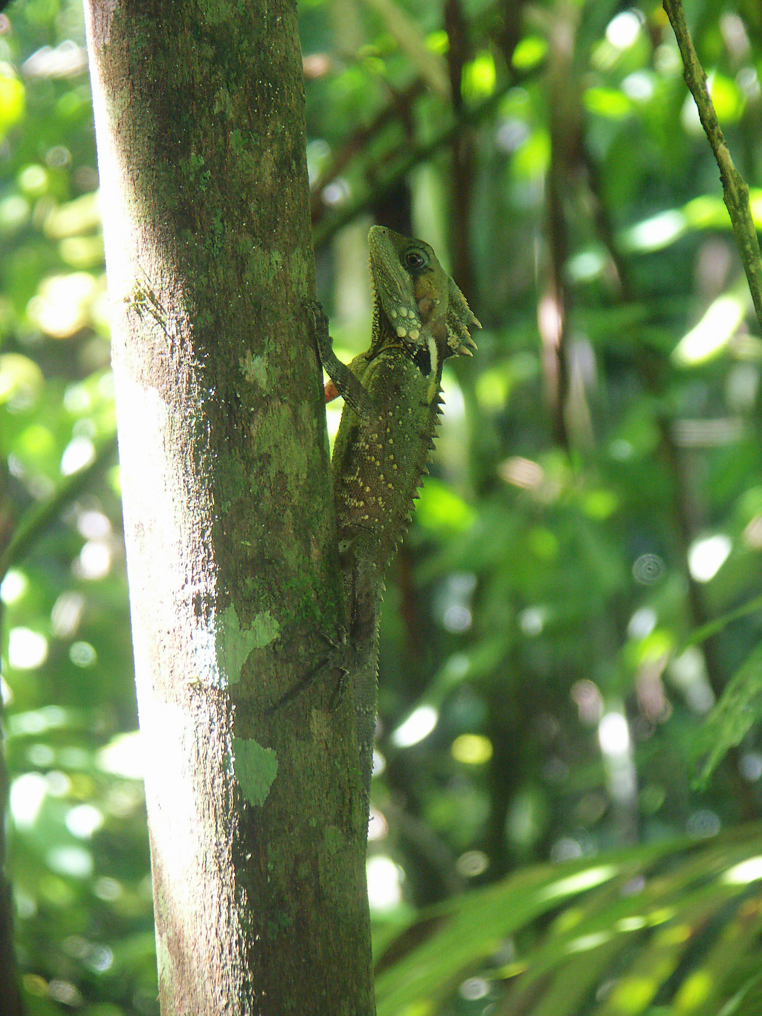 Boyd's Forest Dragon (Hypsilurus boydii) - In the rainforest north of Port Douglas - Queensland - Australia